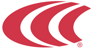 Logo of Car Credit City; the refusal by the Copyright Office to register for copyright was upheld (decision)